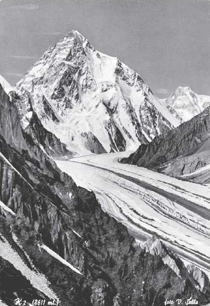 Vittorio Sella's classic view of K2 from the Godwin-Austen glacier, taken in 1909.